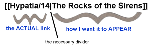 Simple image demonstrating how MediaWiki links work